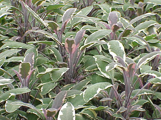 Species: Salvia officinalis 'Tricolor' Family: Lamiaceae Image No. 4